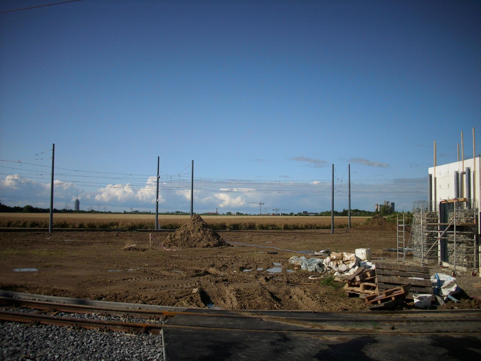 area of the planned projekt Science Park Augsburg